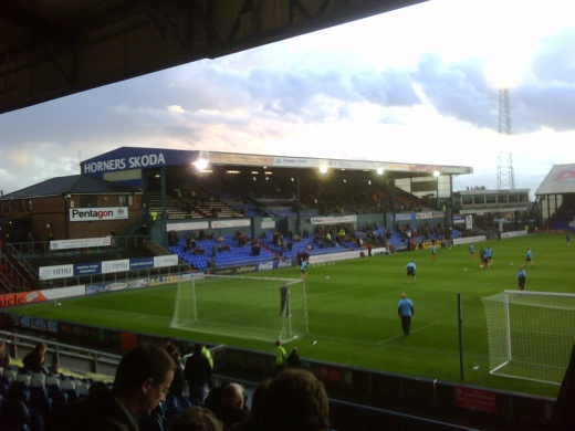 Image was taken before the Oldham Athletic vs Hartlepool United game at Boundary Park in Sept 2009. Game which Hartletpool won 3-0.